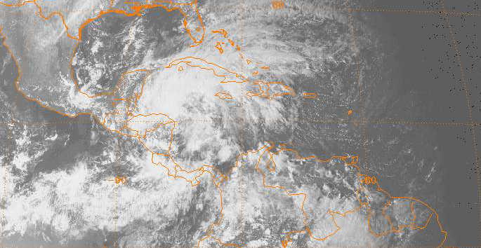 Tropical Depression Fiveteen, later hurricane Michelle, after reaching the carabean sea le 10/31/2001 à 2045Z